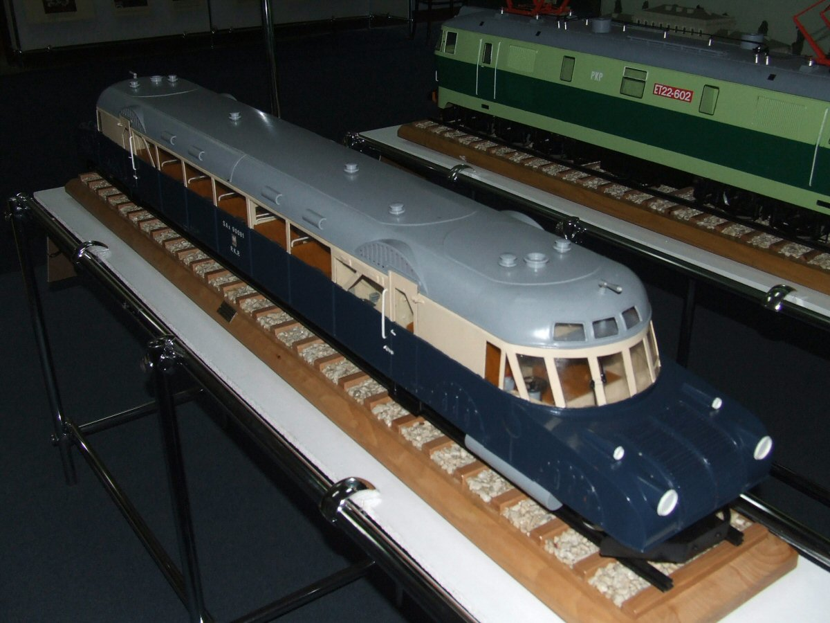 Luxtorpeda train